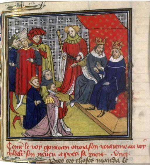 Gontran (roi) et Childebert II Bourgogne.